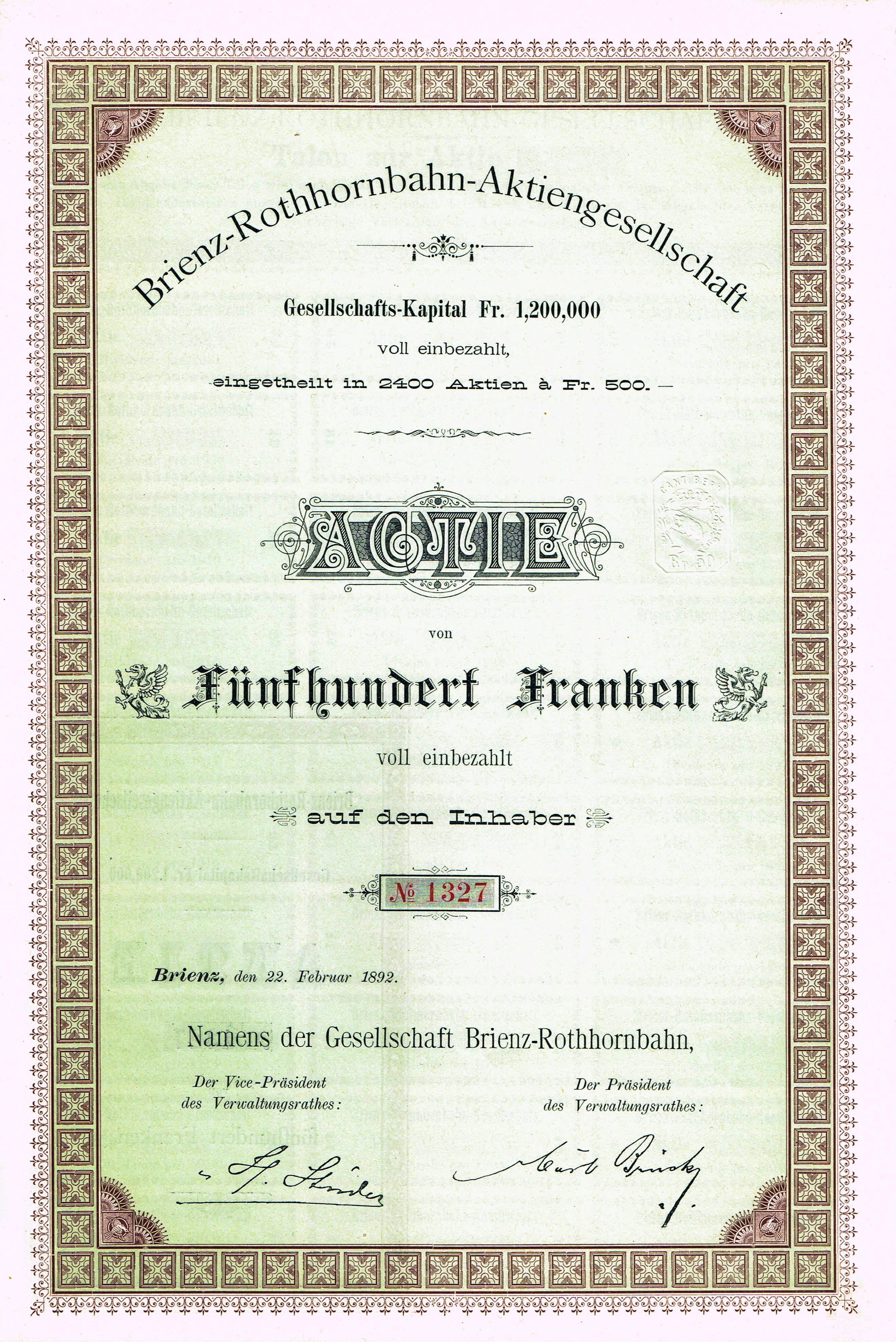 Share of the Brienz-Rothornbahn-AG, issued 22. February 1892